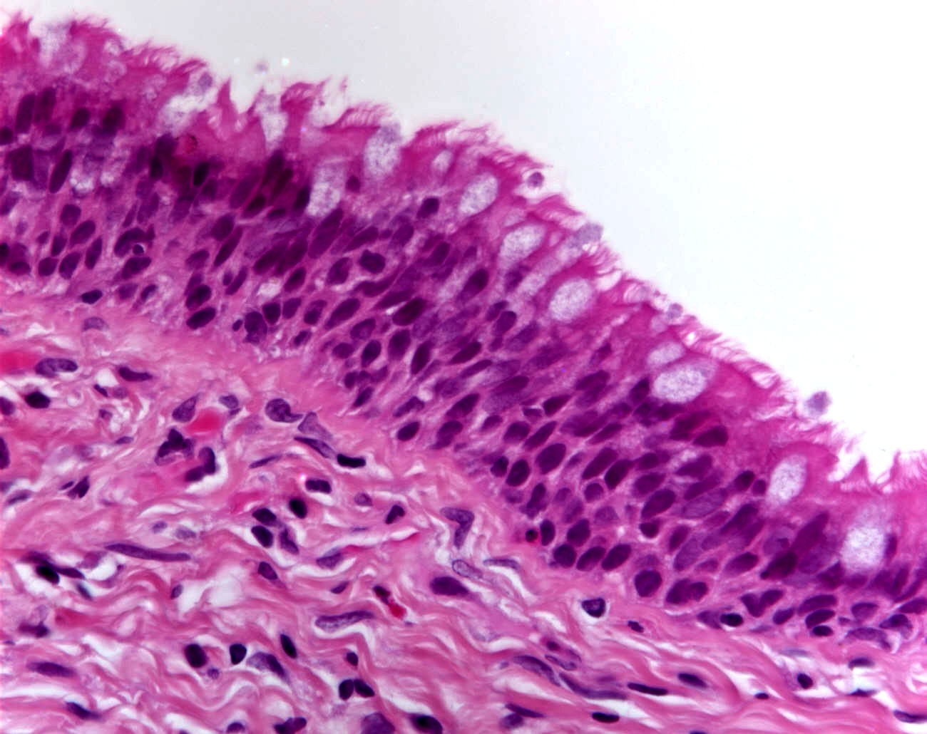 High power image of cyst lining showing ciliated columnar epithelium (hematoxylin-eosin stain × 400) from a biopsy of a patient with Ciliated hepatic foregut cyst.